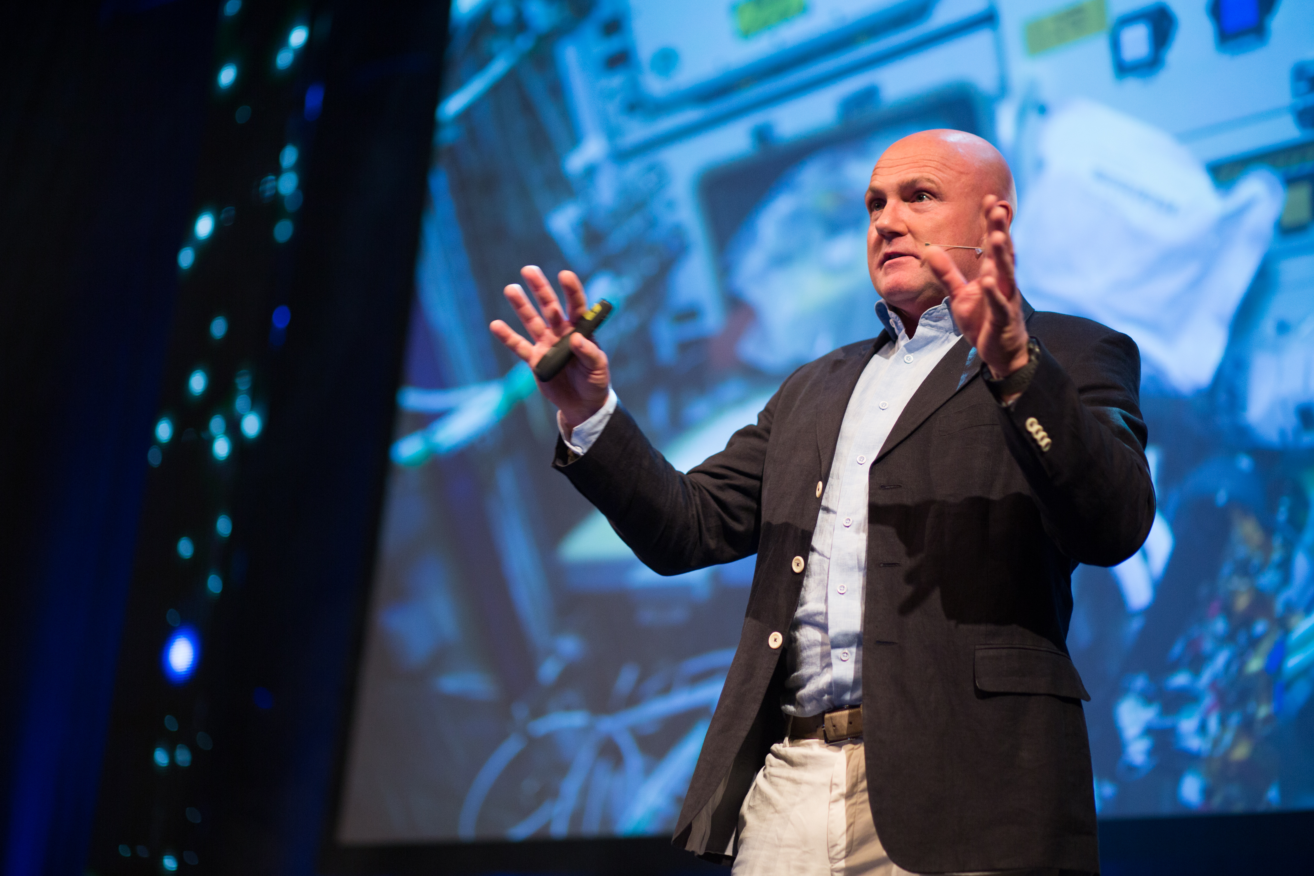 The SingularityU The Netherlands Summit 2016 took place on September 12 & 13 in Amsterdam, The Netherlands. The Netherlands Summit was aimed at bringing awareness about exponential technologies and their impact on business and policy. The theme of the summit was "Reality Check - Fast-Forward into our Future". For more information